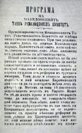 IMARO revolutionary/ies